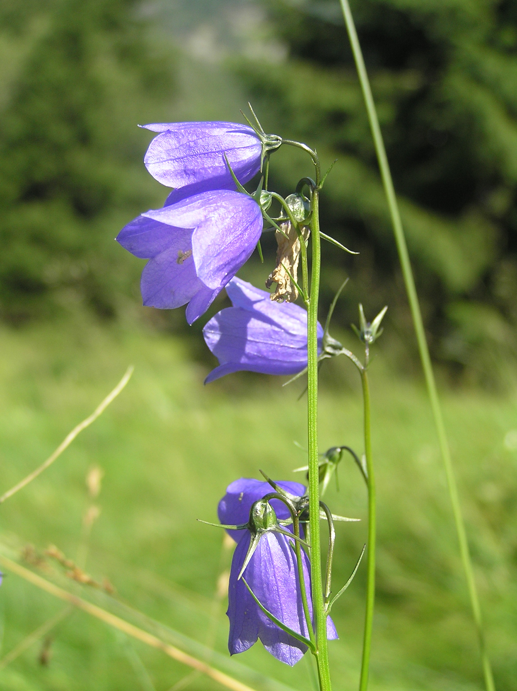 Campanula bohemica, Obří důl in Krkonoše Mountains, Czech Republic